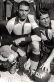 Robert Mercier-Furois, french soccer playerf wins the french cup in 1931 with his team "le Club français"